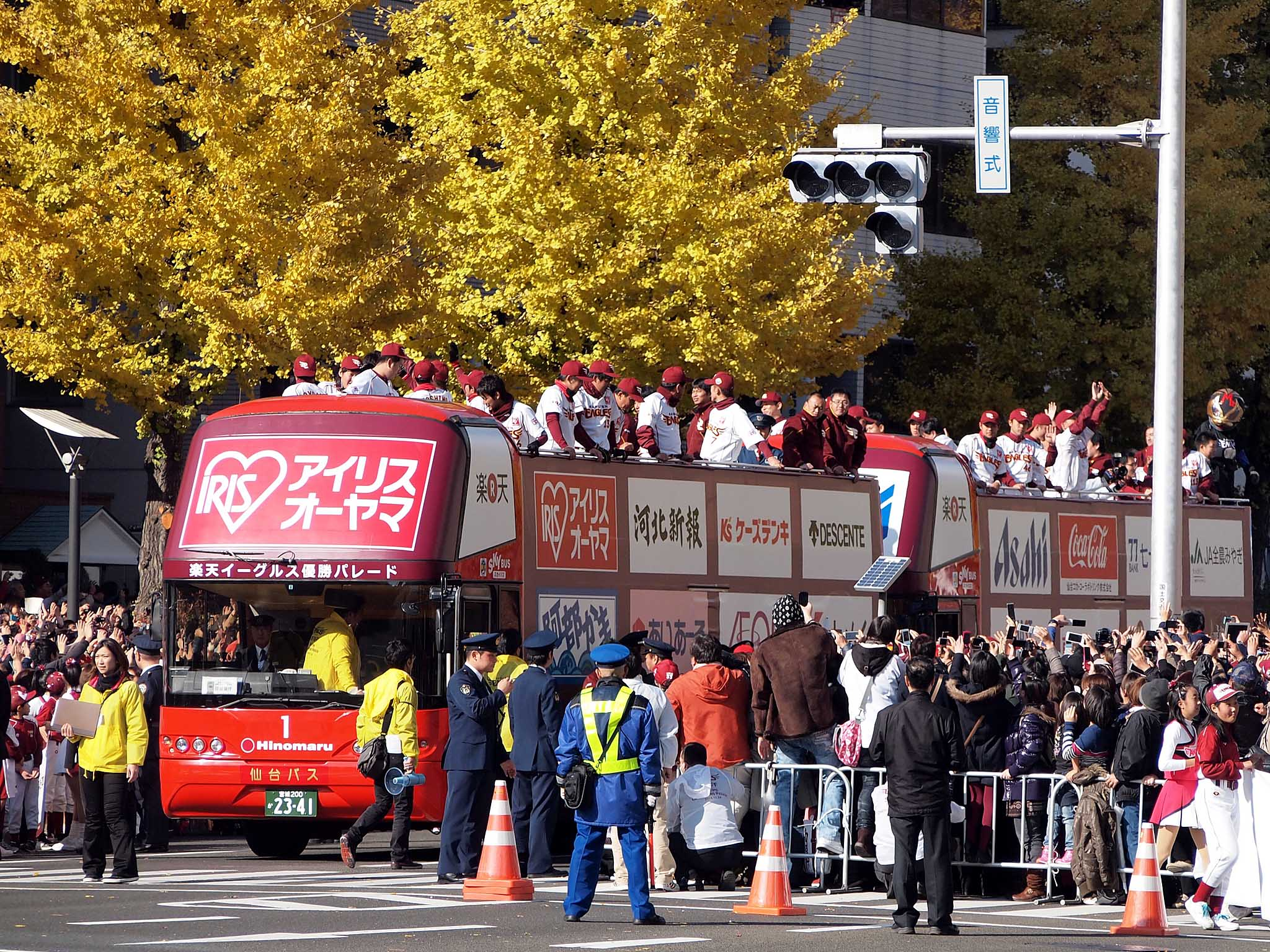 Victory parade of Tohoku Rakuten Golden Eagles in Sendai, player rode five open top buses. Buses rent from Hinomaru Jidosha Kogyo "Sky Bus Tokyo", operated by Sendai Bus. Base car: Neoplan Skyliner Place: Itsutsuhashi, Aoba Ward, Sendai City, Miyagi Japan